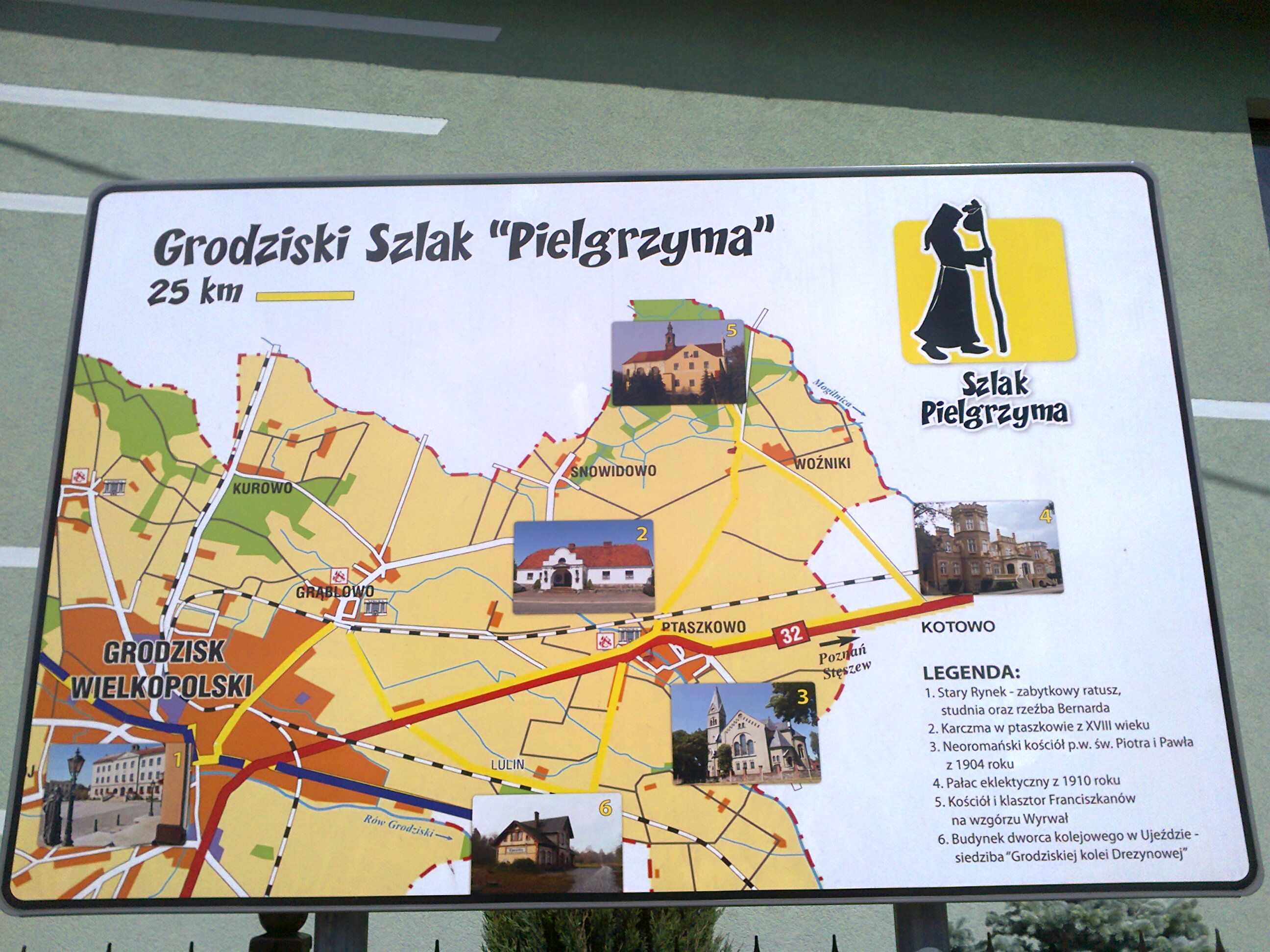 Bike lane in Grodzisk Wlkp. (Poland)